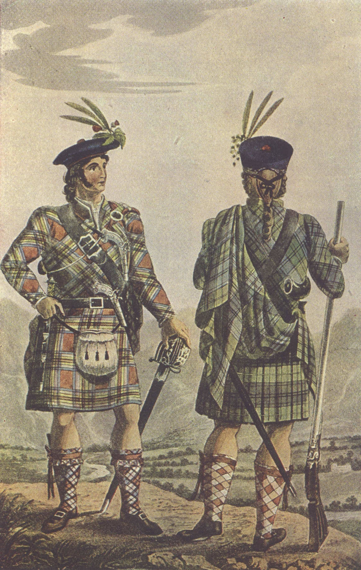 A romantic depiction of Highland Chiefs in the Stewart and Gordon tartans.